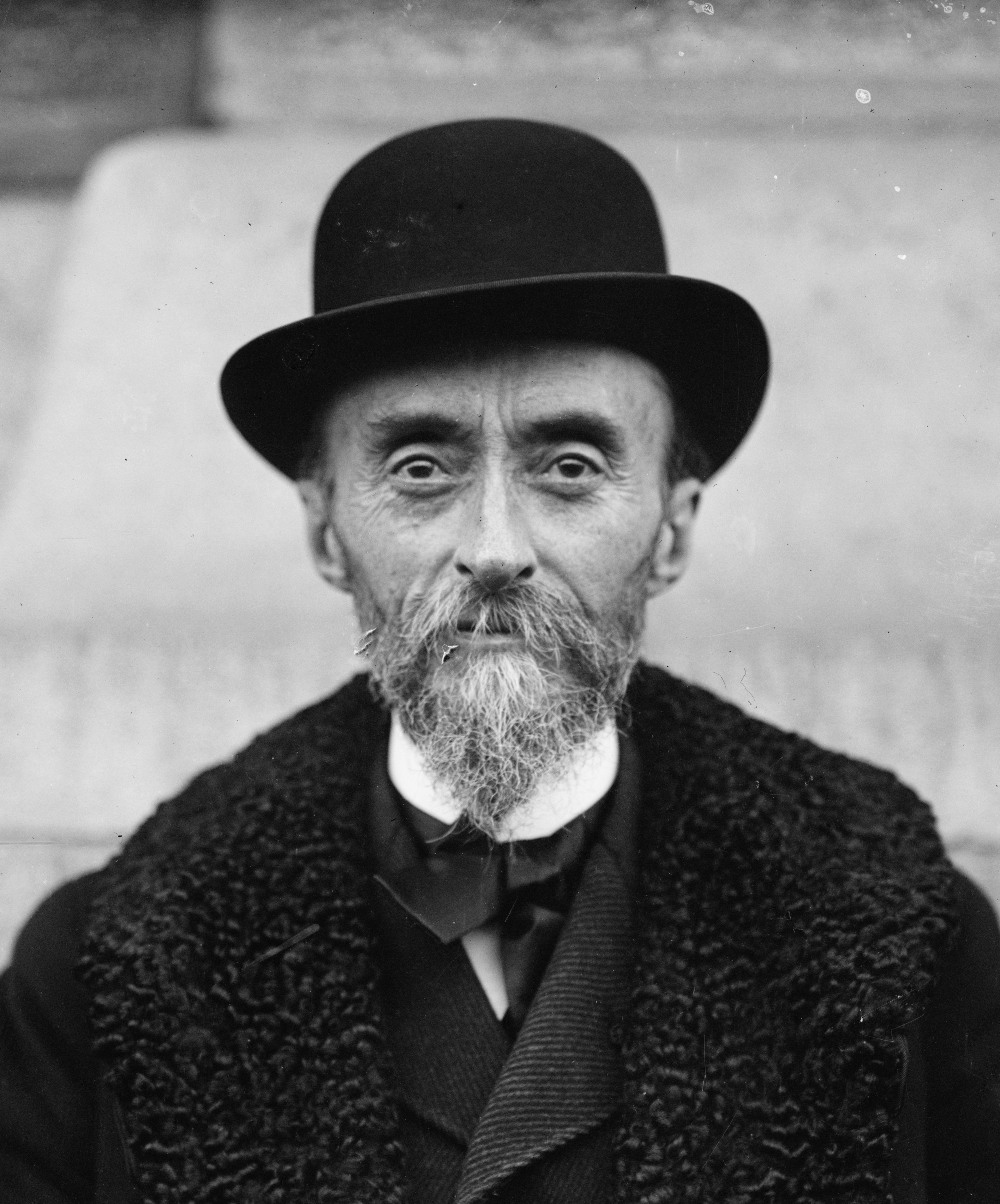 French painter Fernand Cormon (1845-1924)